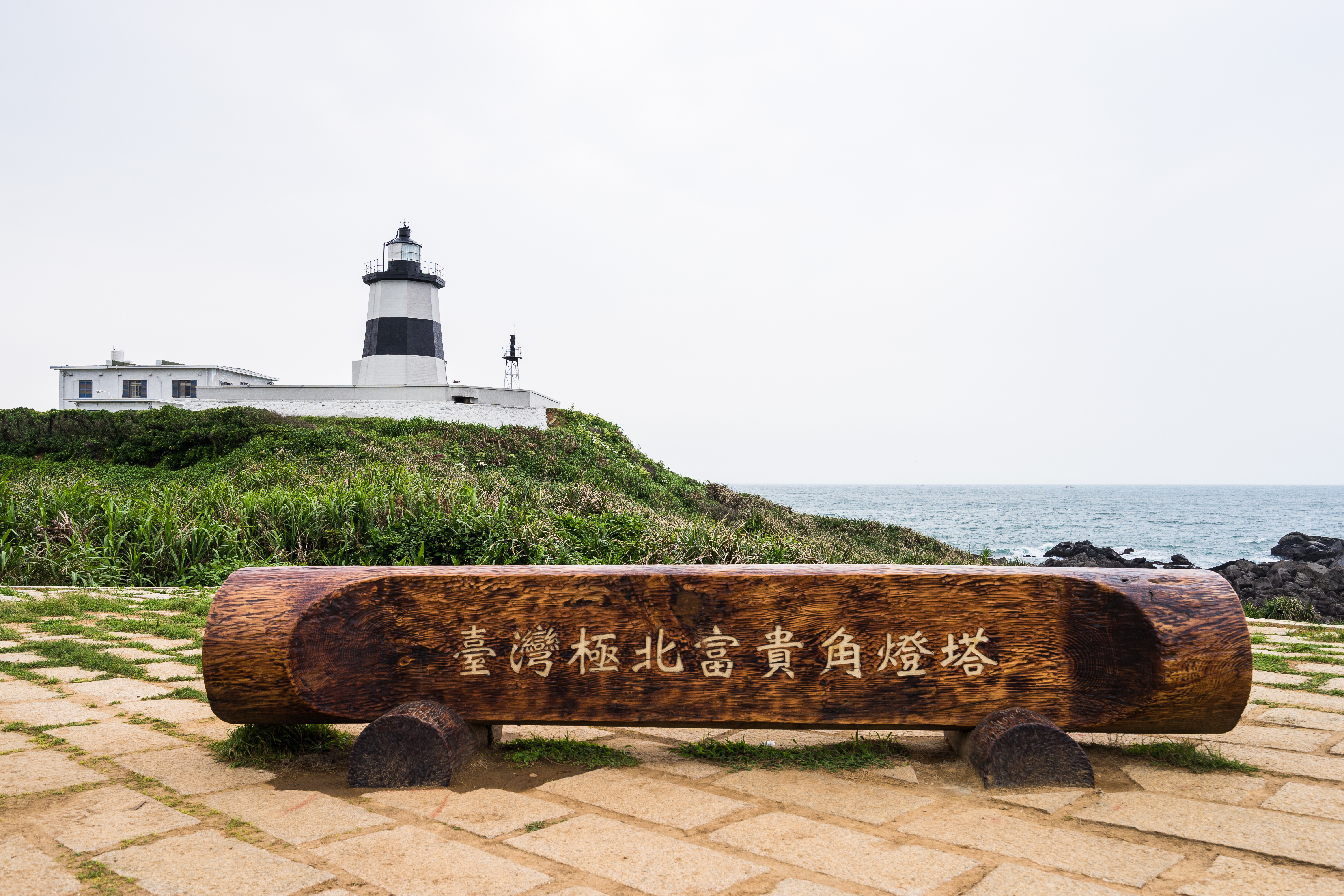 Fuguei Cape Lighthouse